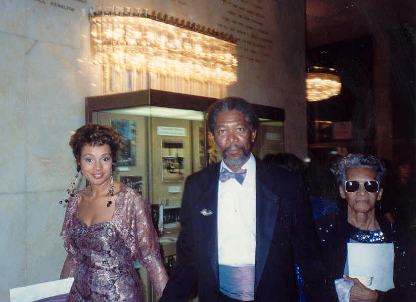 Morgan Freeman, with his wife Myrna Colley-Lee and mother, leaves the 62nd Annual Academy Awards, 3/26/90 - Permission granted to copy, publish, broadcast or post but please credit "photo by Alan Light" if you can